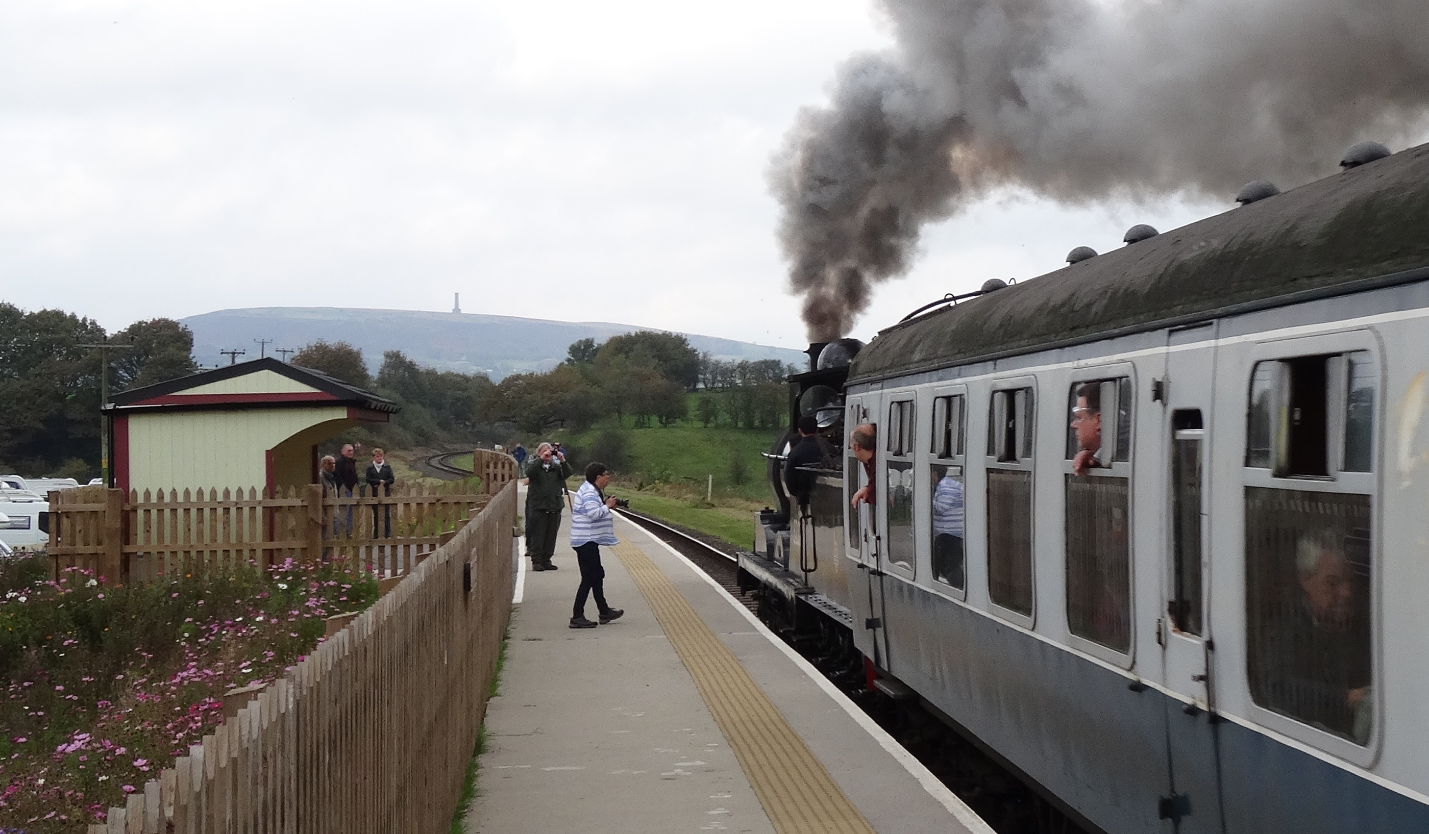 Ex-L&Y Class 27 52322 passes through Burrs Country Park station during the ELR's Autumn Steam Gala in 2017